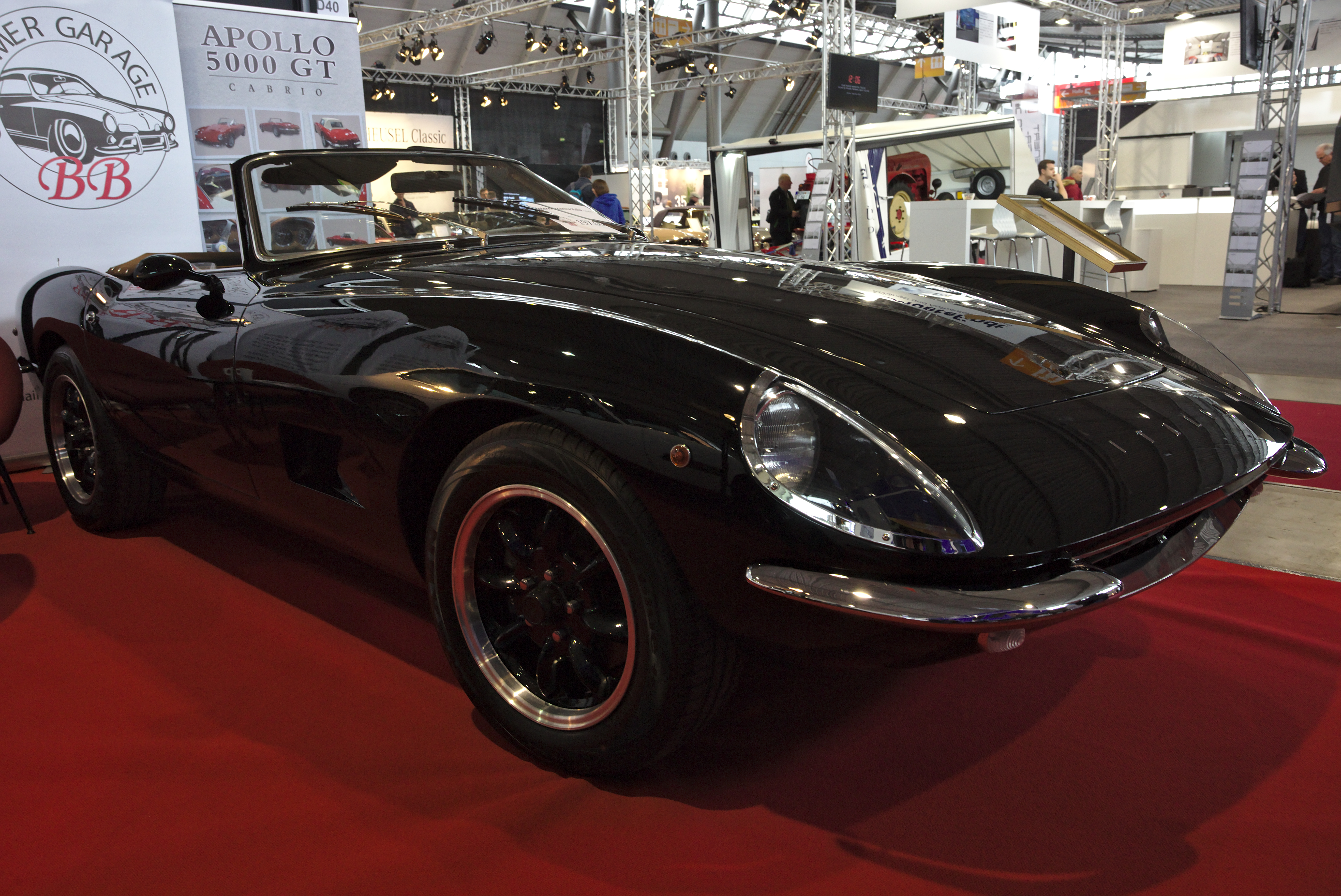 Intermeccanica Italia Spyder at Retro Classics 2018